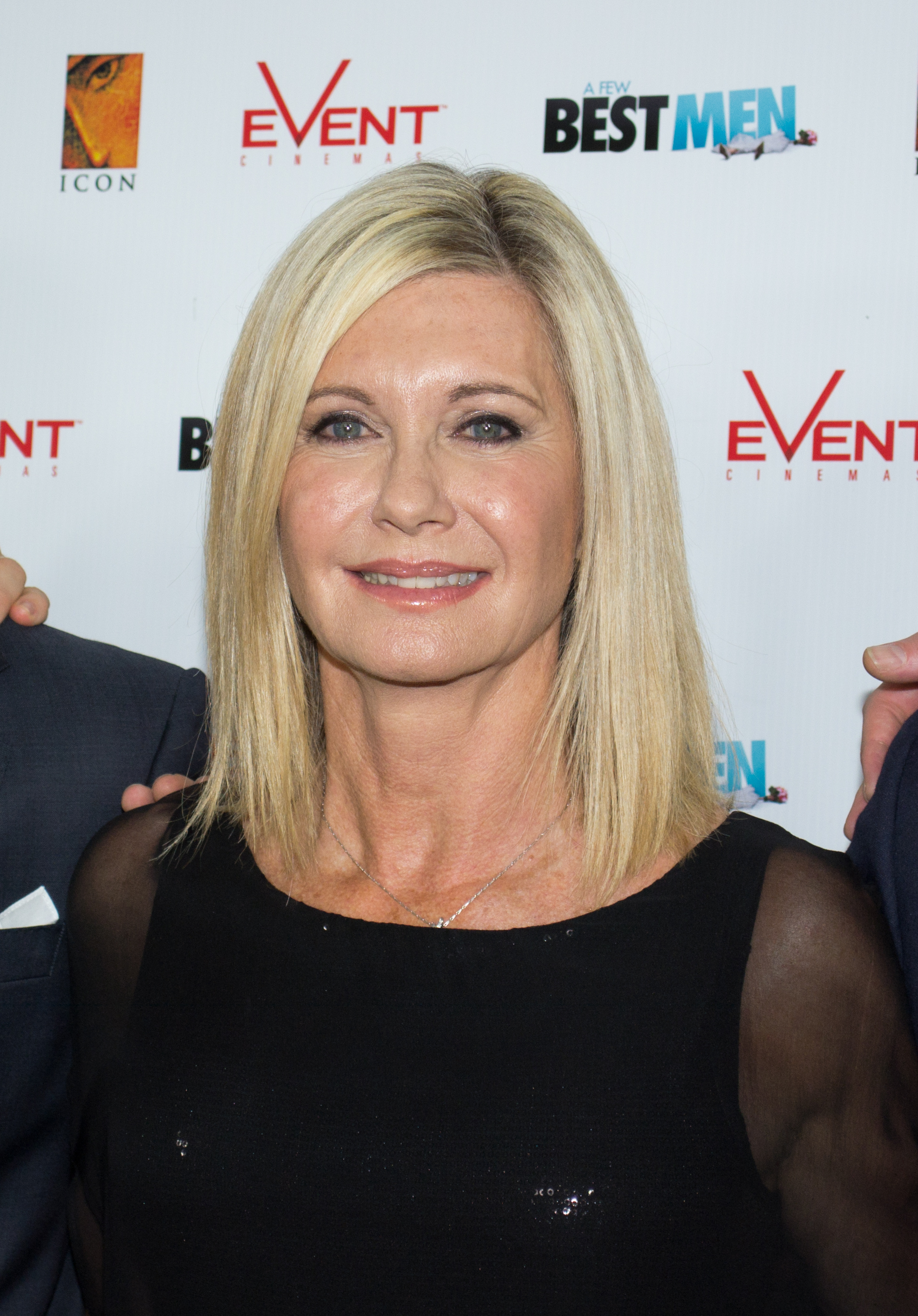 Olivia Newton John at the Premiere of 'A Few Best Men'